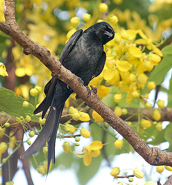 Ashy Drongo Dicrurus leucophaeus in Kolkata, West Bengal, India.